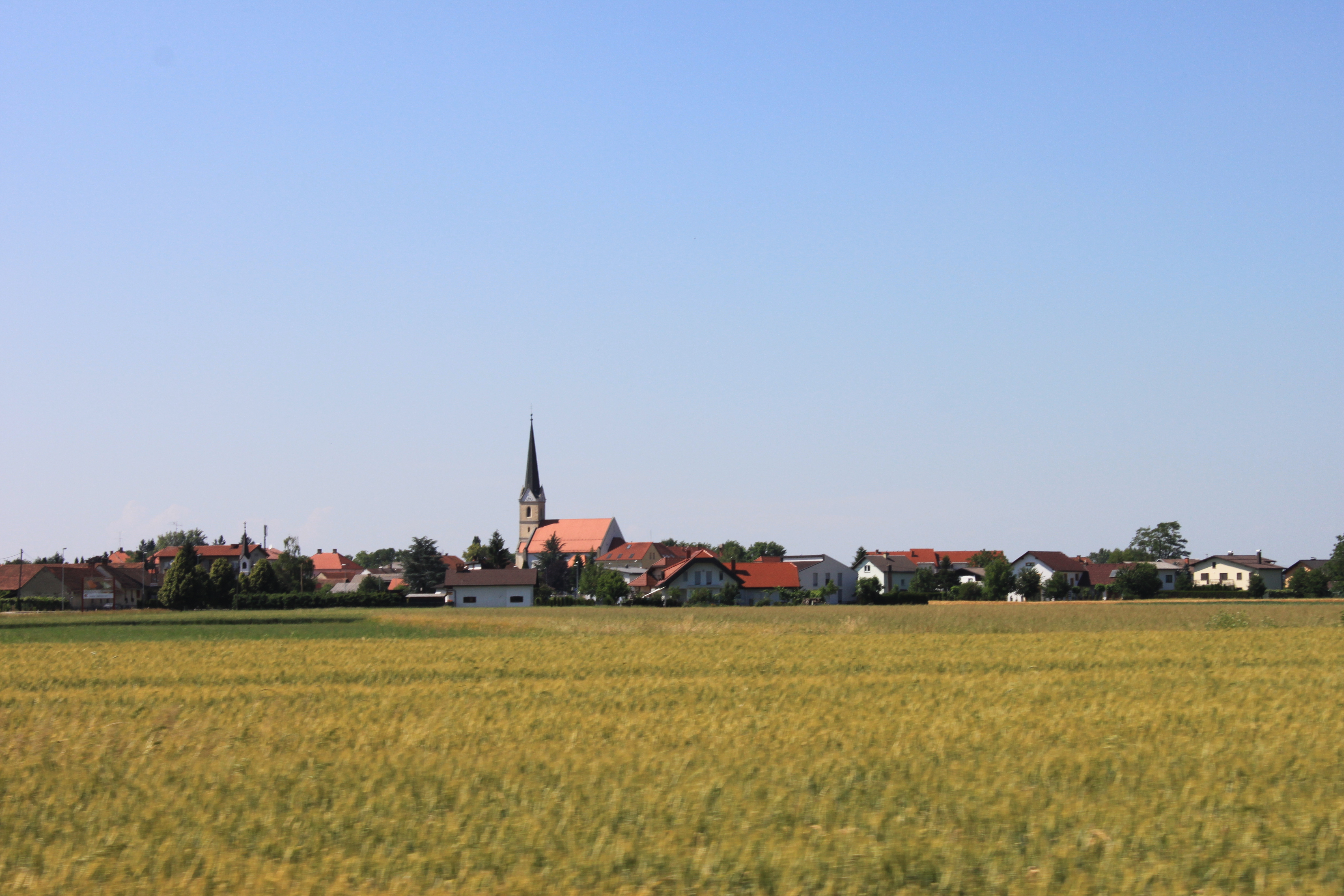 Križevci (Kreuzdorf near Luttenberg); Slowenia; Lower Styria, looking north.